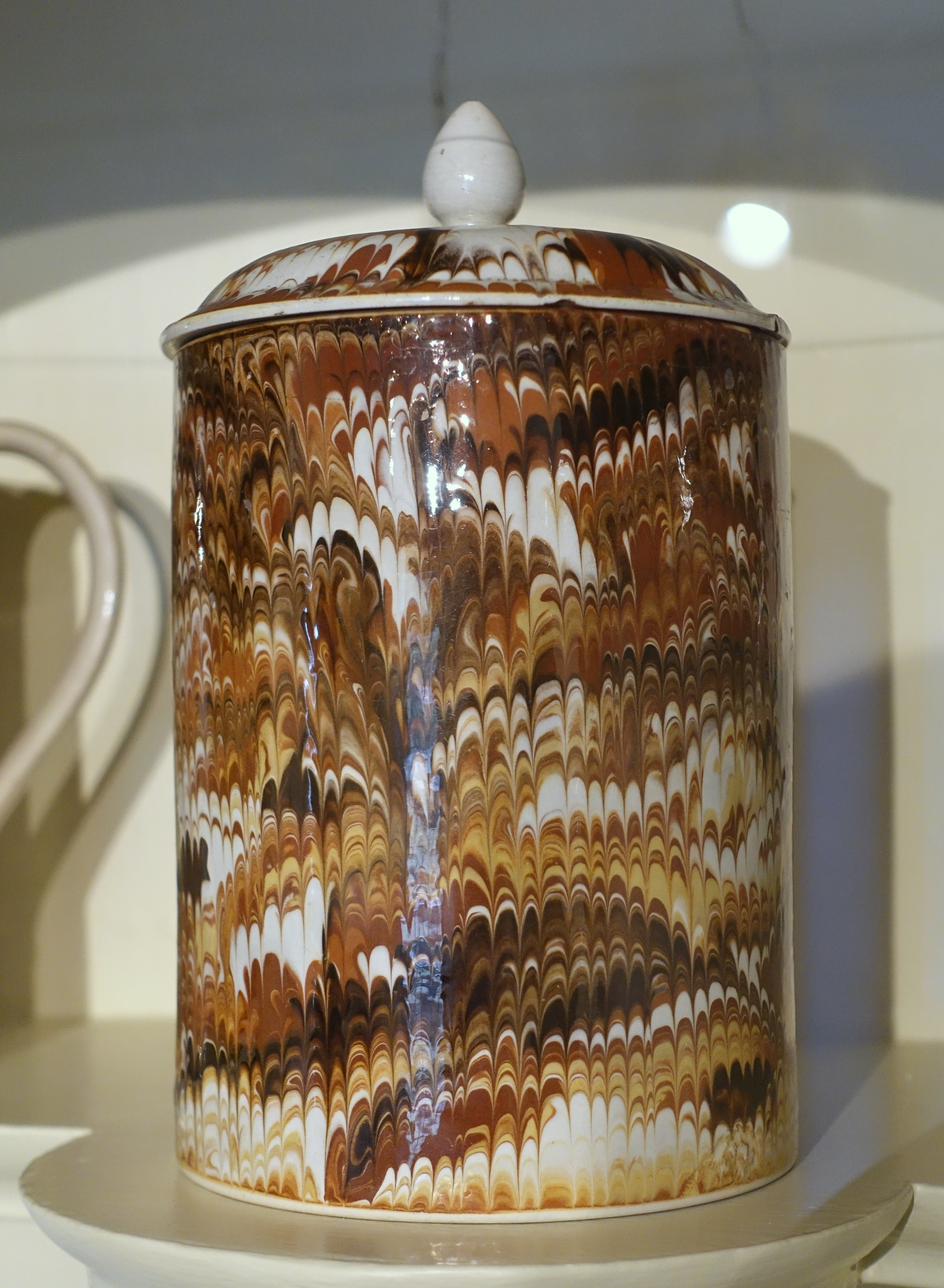 Exhibit in the Concord Museum, Concord, Massachusetts, USA.